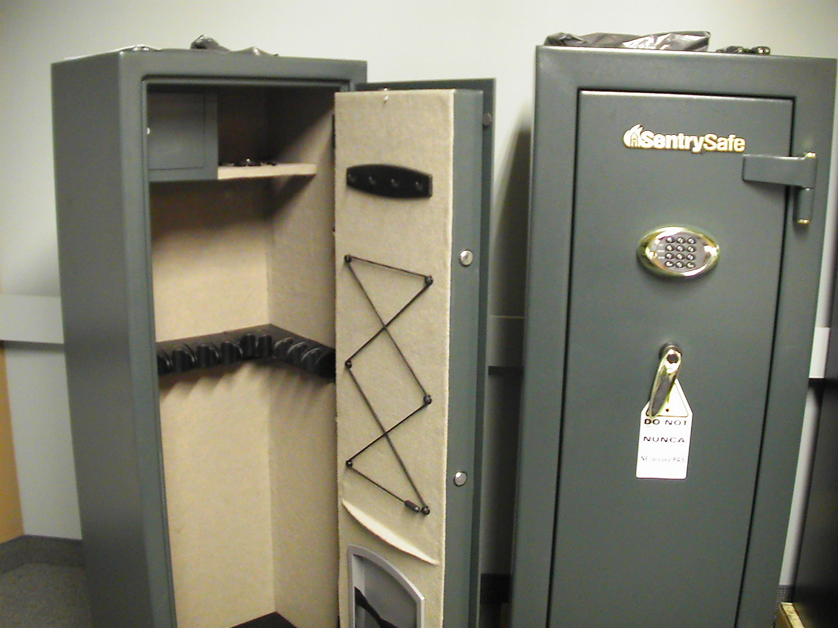 An typical gun safe for the Gun Safe article, taken 08/20/2007.